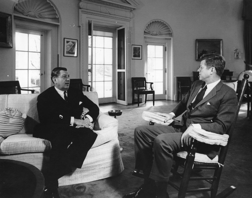 President John F. Kennedy (in rocking chair) meets with United States Ambassador to Canada, W. Walton Butterworth. Oval Office, White House, Washington, D.C.